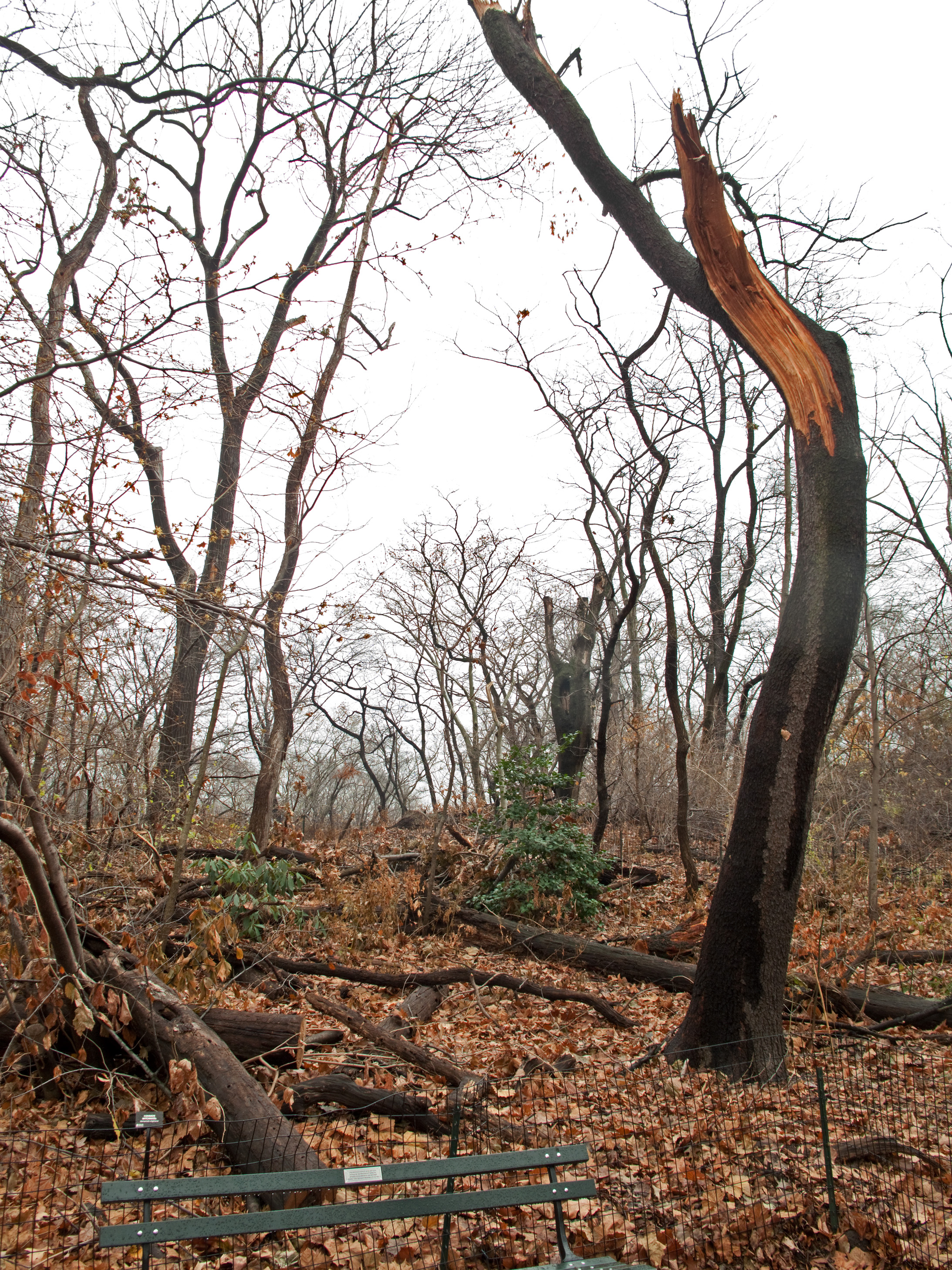 Damaged tree in Central Park in December 2012, after Hurricane Sandy.